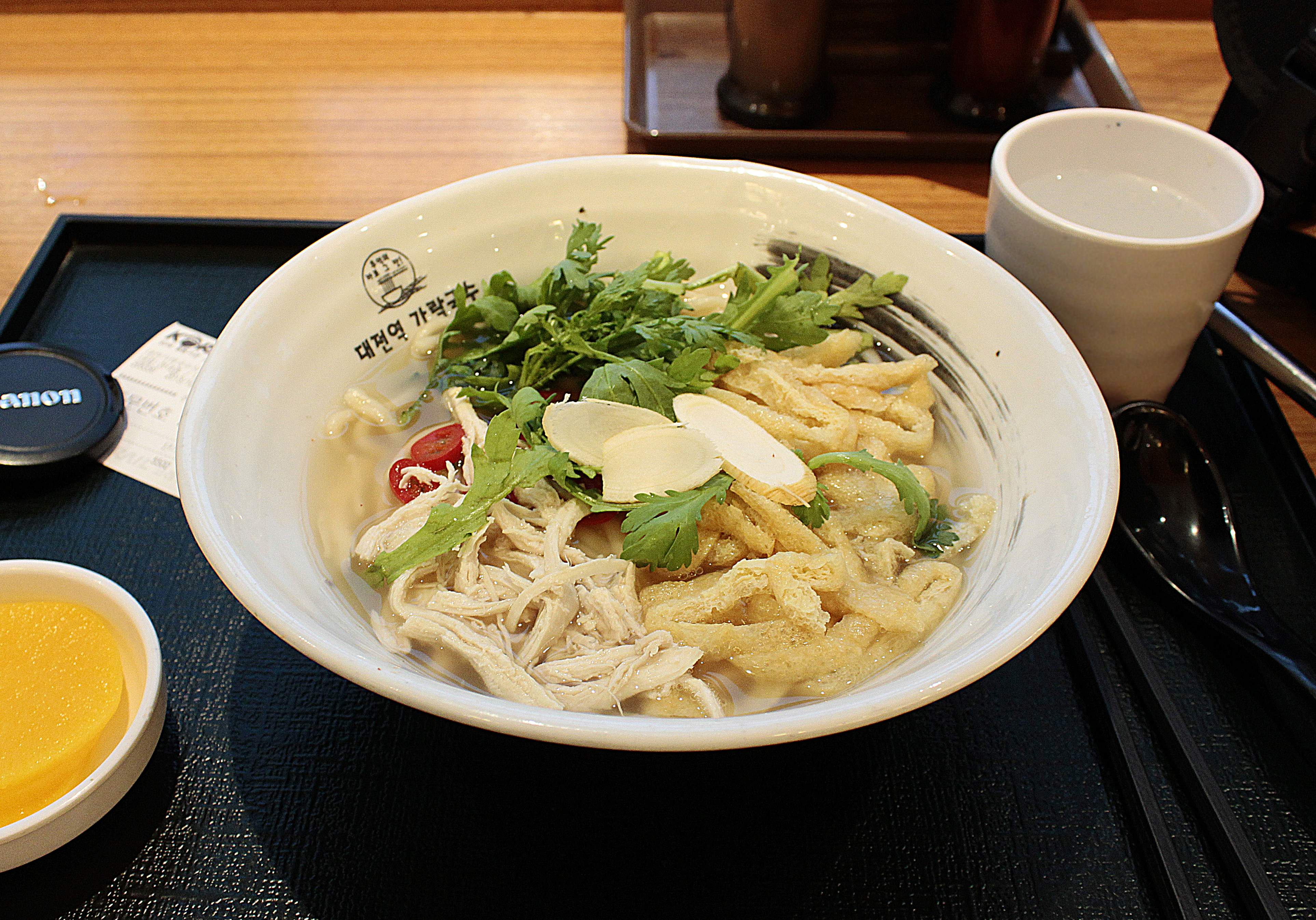 Garakguksu (Korean Udon) @Daejeon Station